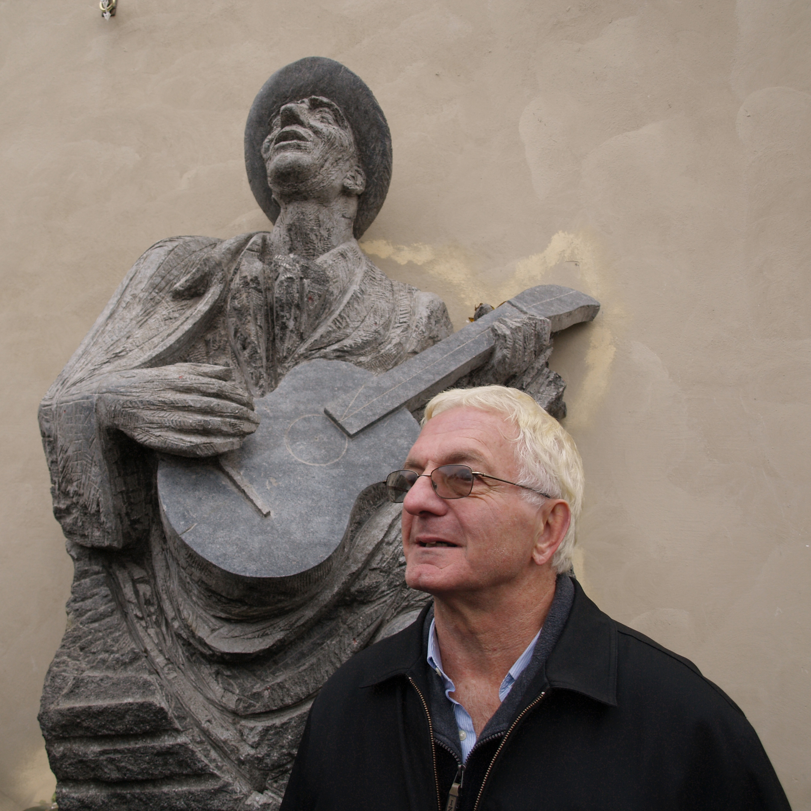 Thomas Hasler, the youngest (illegitimate) son of Czech musician Karel Hašler, after inauguration of sculpture of his father (sculptor: Stanislav Hanzík)